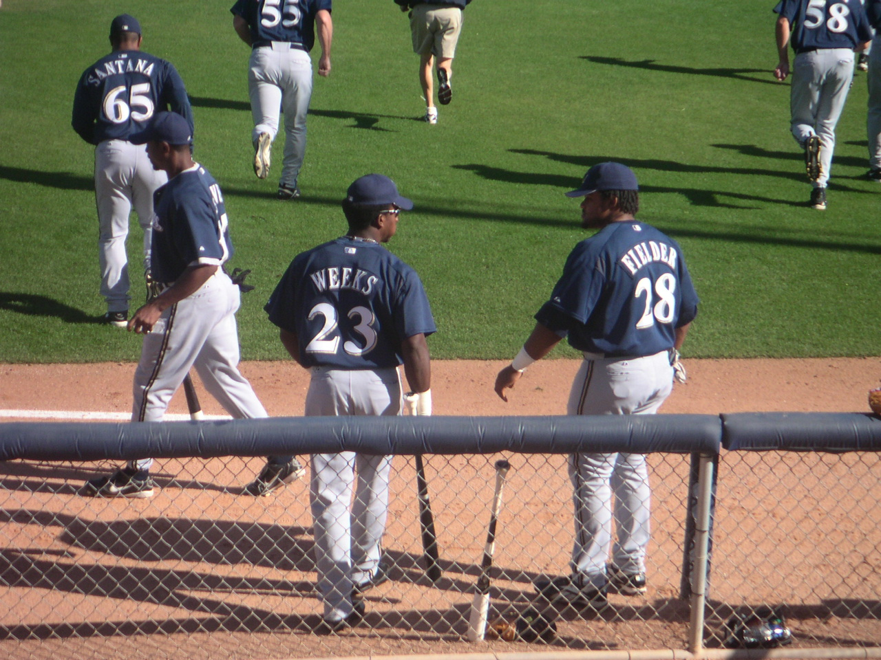 Prince Fielder and Rickie Weeks at Spring Training, Maryville, AZ -- March 2005